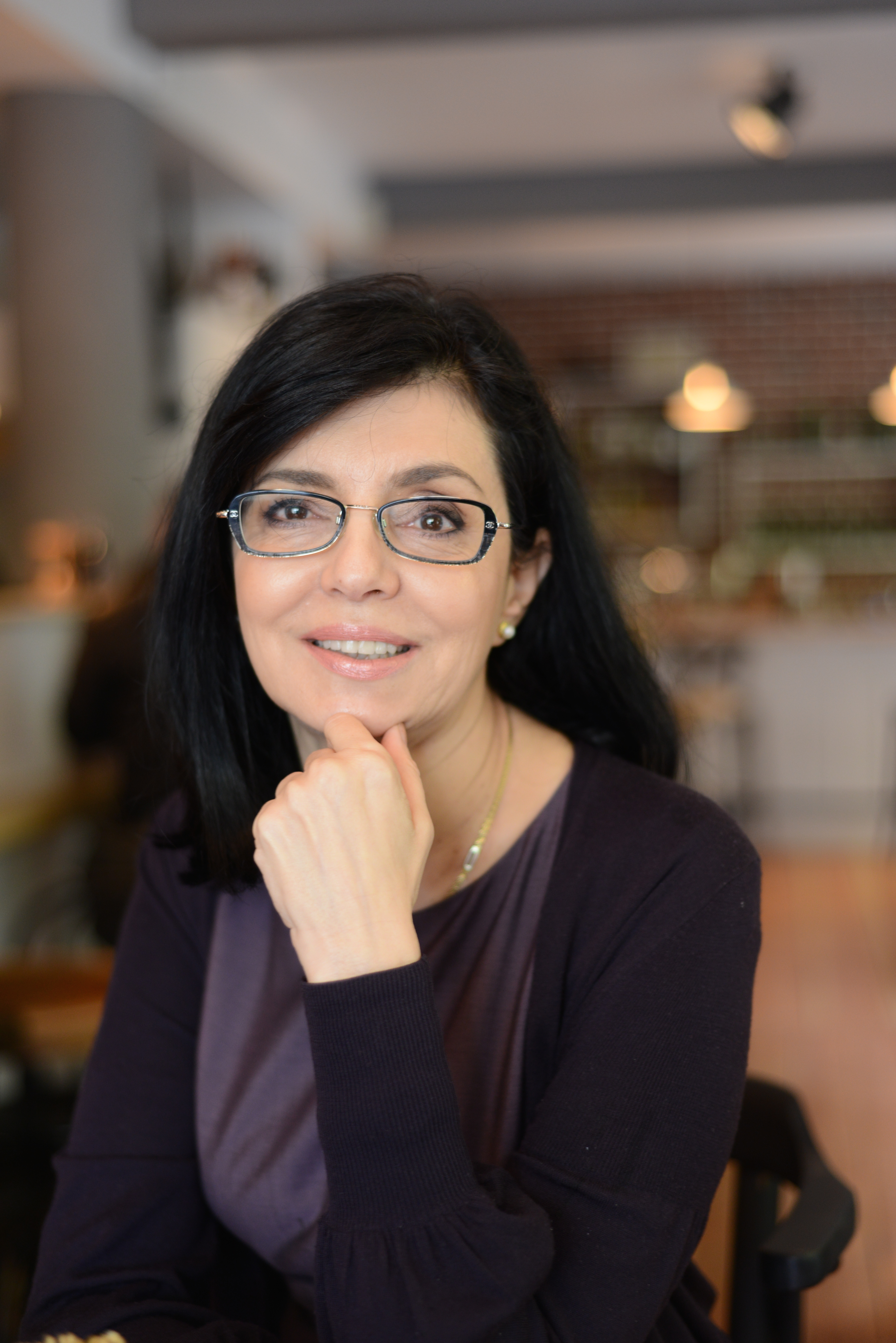 Meglena Kuneva